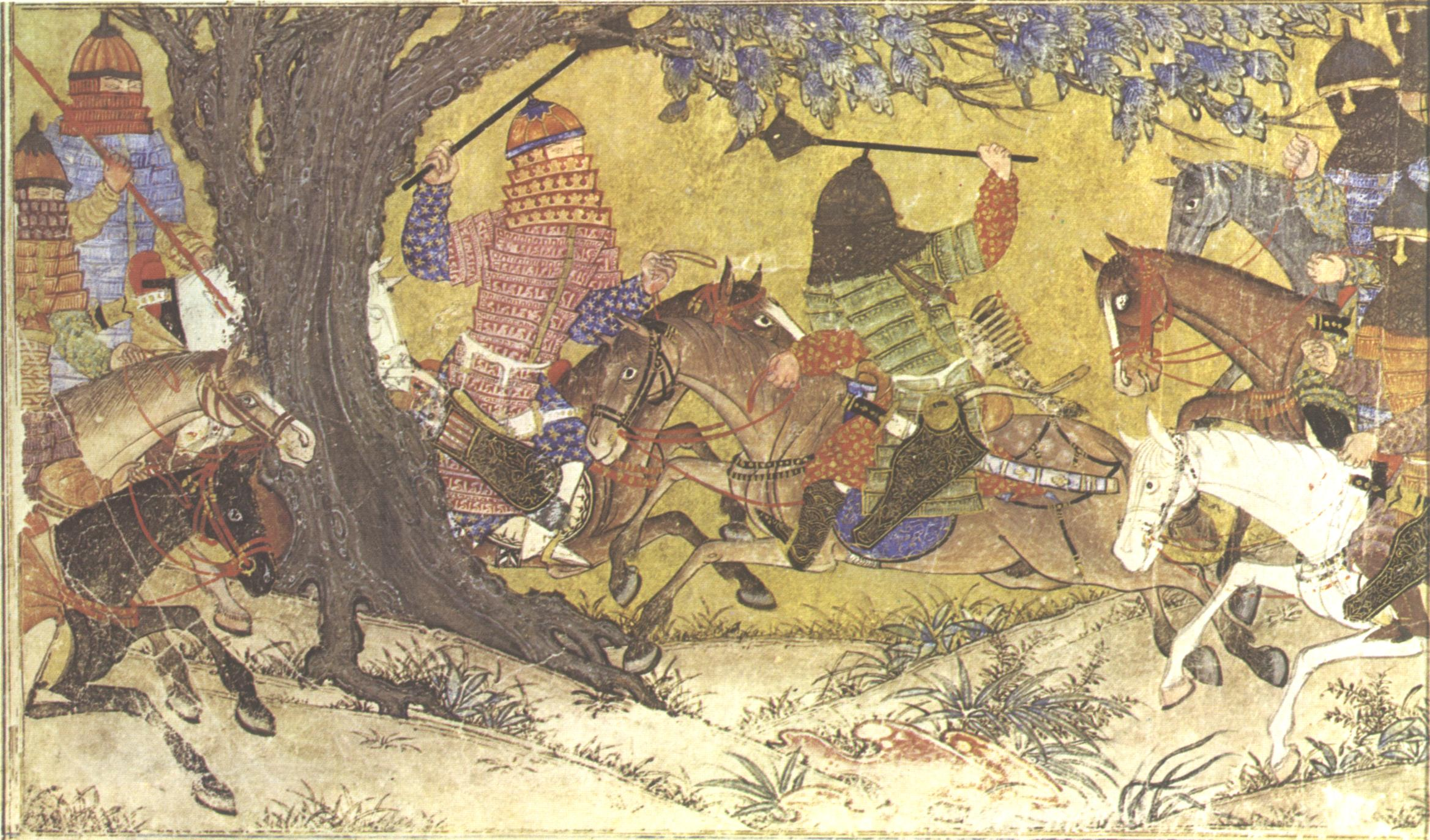 Great Mongol (Demotte) Shāh-Nāmeh Chapter 21 - The Ashkanians (200 years) Ardashir and Ardavan fight